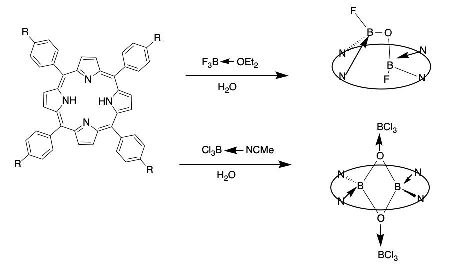 Chemical structure of Boron porphyrins johbrbr